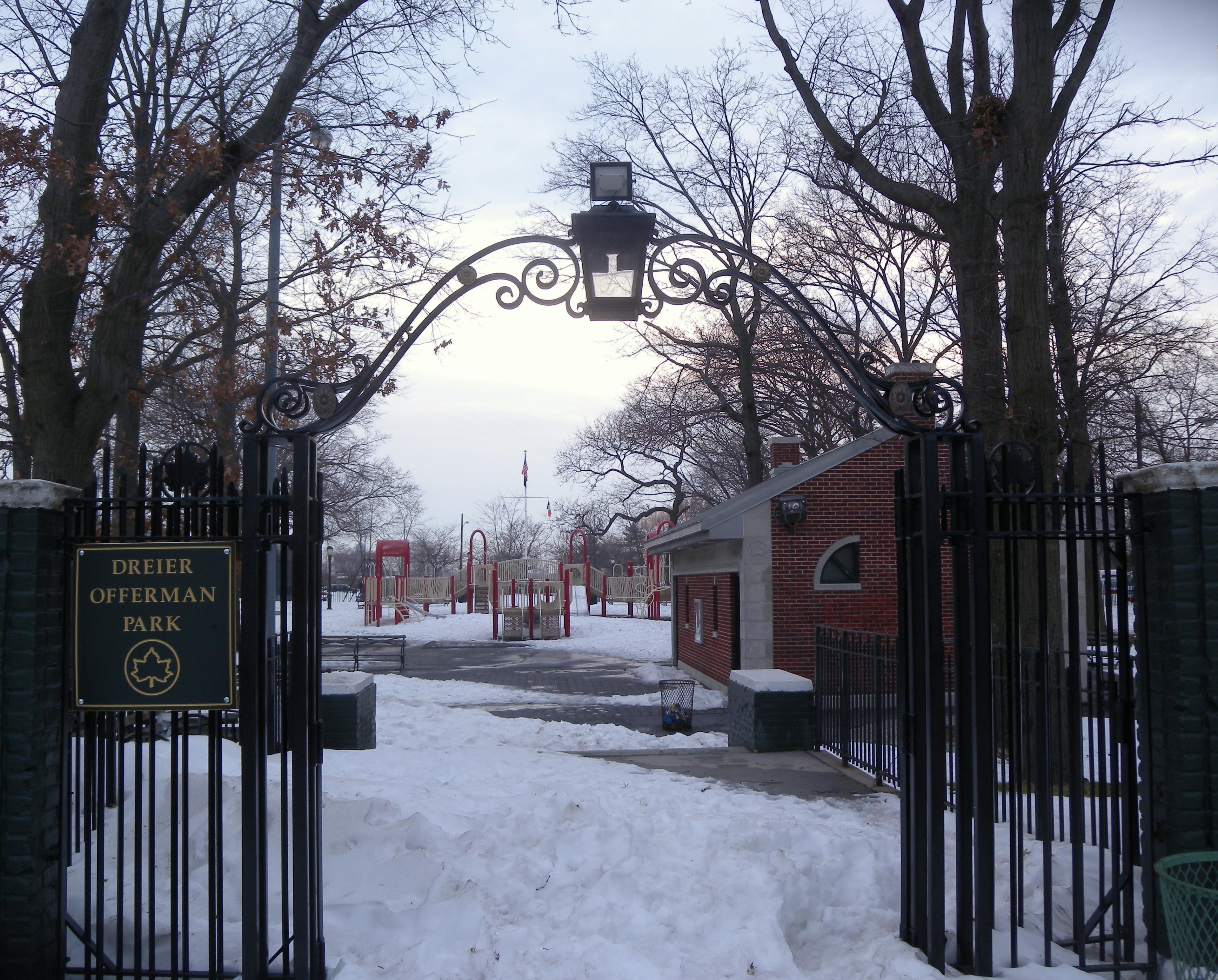 Looking southwest from Cropsey Avenue into Offerman Park on a cloudy New Years Day.